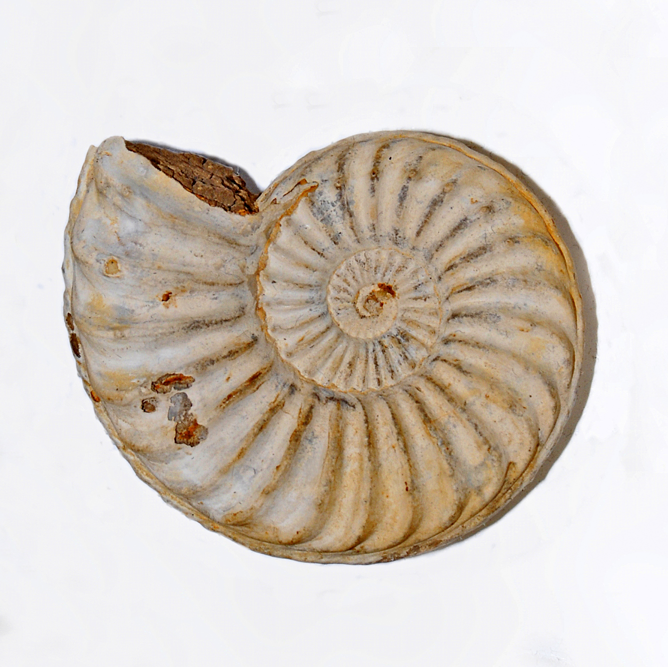 Fossil of Asteroceras stellare from Nuremberg (Germany)